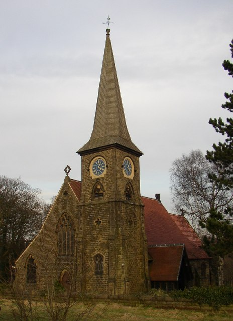 Christ church parish church, Slades Lane, Helme, West Yorkshire, seen from the southwest